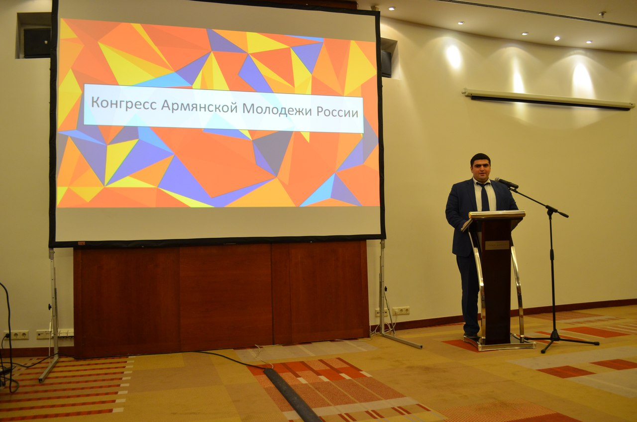 Constituent Assembly of the Armenian Youth Congress of Russia (AYCR), 2015 February 15. Elected President — Andranik Hovsepyan.